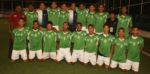 club atletico chiriqui